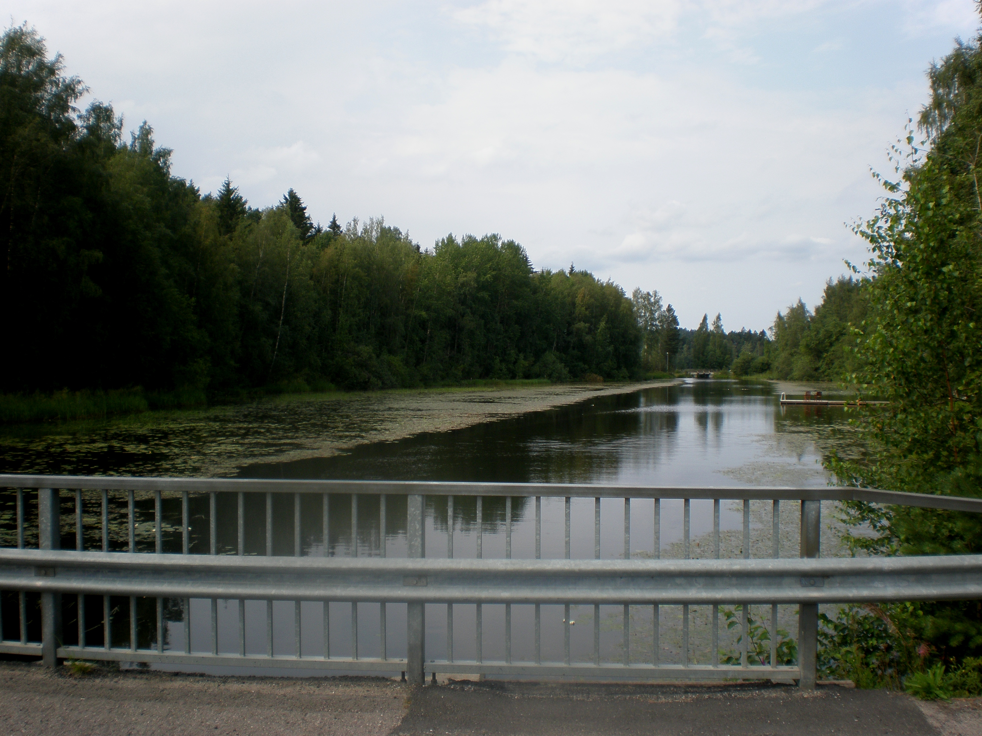 Strait Villilänsalmi, Island Villilinäsaari at left